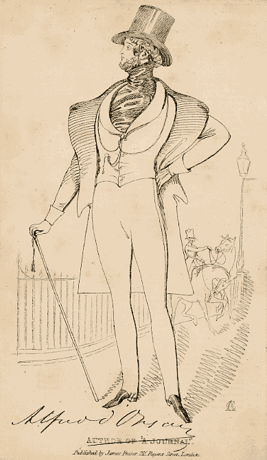 Portrait of Alfred D’Orsay published by James Fraser